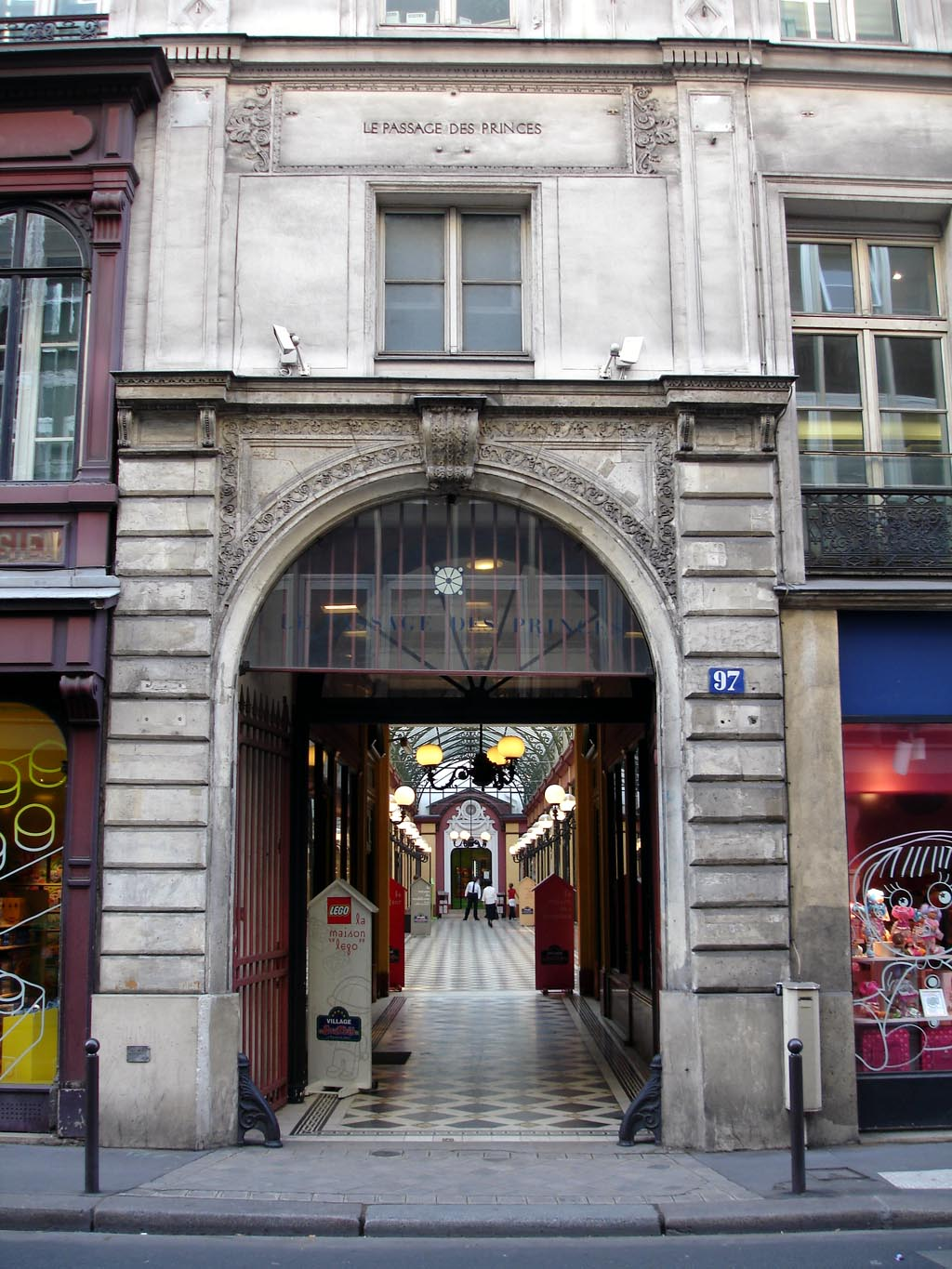 Passage des Princes, a mall listed as historical monument located in the 2nd arrondissement of Paris in France. .